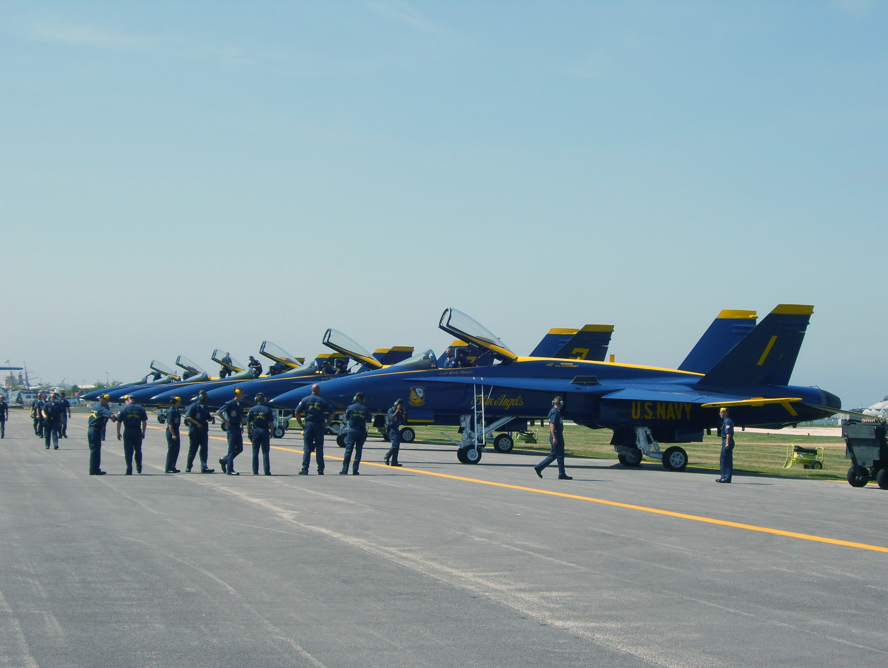 The Blue Angels preparing for a performance at the Cleveland National Air Show.